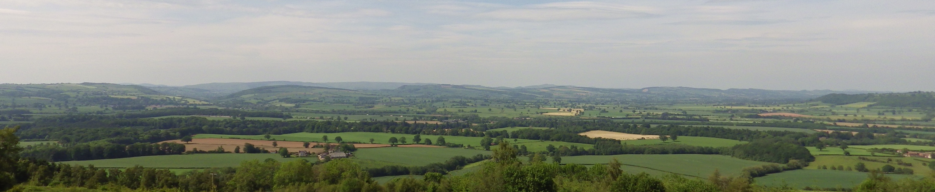 The ancient Shropshire hundred of Culvestan in 2014, with the wide valley of the River Corve on the right and the much narrower River Onny valley seen on the left; the River Teme flows left to right across the panorama, with the village of Bromfield in the centre. Photo taken from Bringewood.